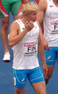 2017 European Athletics U23 Championships, 4x100m relay men final